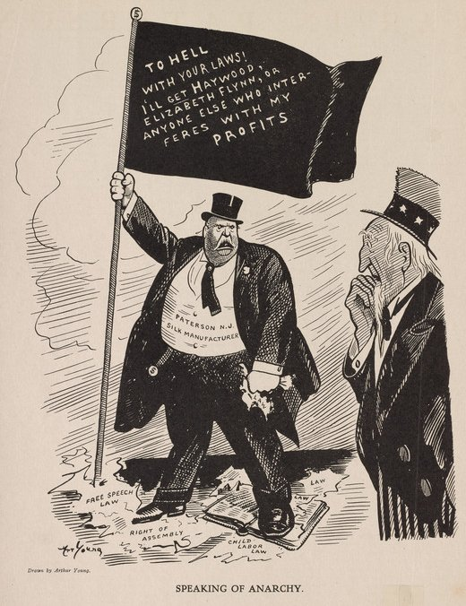 Political cartoon of a silk manufacturer in Paterson, New Jersey who is holding the black anarchy flag in front of Uncle Sam on which is written "To hell with your laws! I'll get Haywood. Elizabeth Flynn, or anyone else who interferes with my profits. In the silk merchants hand is a torn paper which says laws, and beneath his feet are torn pages with free speech law, right to assemble, and child labor law.. The caption to the image reads "Speaking of anarchy". The image is by Art Young and is in reference to the Paterson silk strike and comes from the June 1913 issue of The Masses.